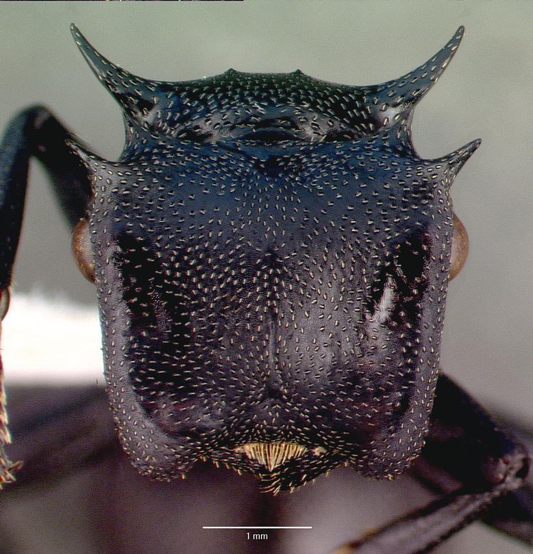 Head view of ant Cephalotes atratus specimen casent0010677.